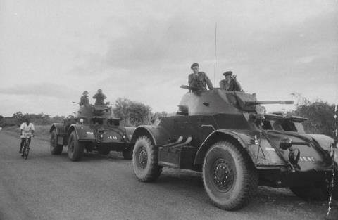 Staghound armoured scout cars of the Rhodesia Regiment in 1959